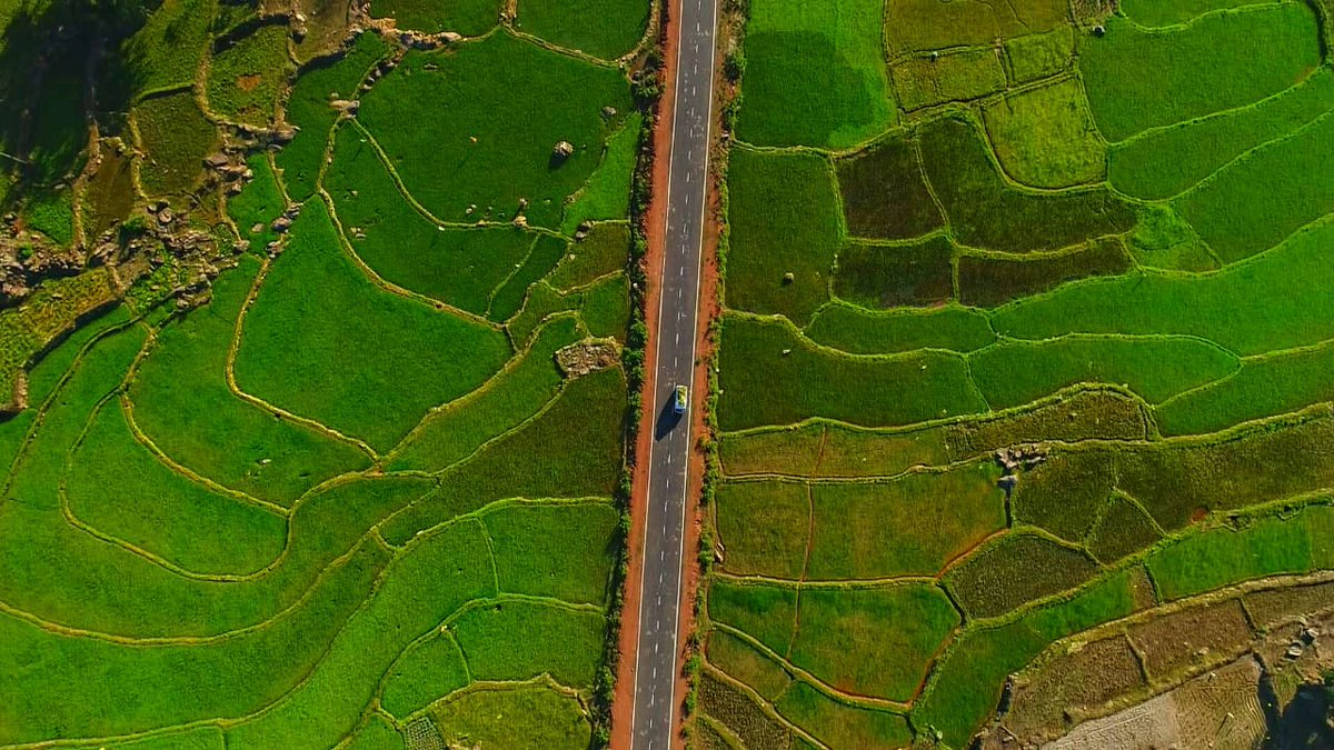 Tweet Text: It is always a refreshing experience to see the well-lined countryside roads of #Odisha flanked by miles of lush green paddy fields reaching out to the horizon. Guess the fascinating road before 6PM. KnowYourOdisha